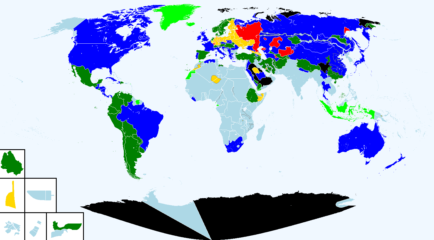 World War I on 11 November 1918: Countries and non-state actors of the Allies / Entente Powers Colonies, condominiums, occupations, protectorates, and territories of the Allies / Entente Powers Countries, condominiums, and non-state actors of the Central Powers Colonies, occupations, protectorates, and territories of the Central Powers Occupied territory by the Russian Socialist Federative Soviet Republic Countries and non-state actors allied to the Russian Socialist Federative Soviet Republic Neutral colonies, protectorates and territories Neutral countries and non-state actors Stateless territory